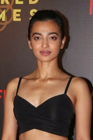 Radhika Apte graces the red carpet screening of Netflix’s original series ‘Sacred Games’, Jun 29, 2018